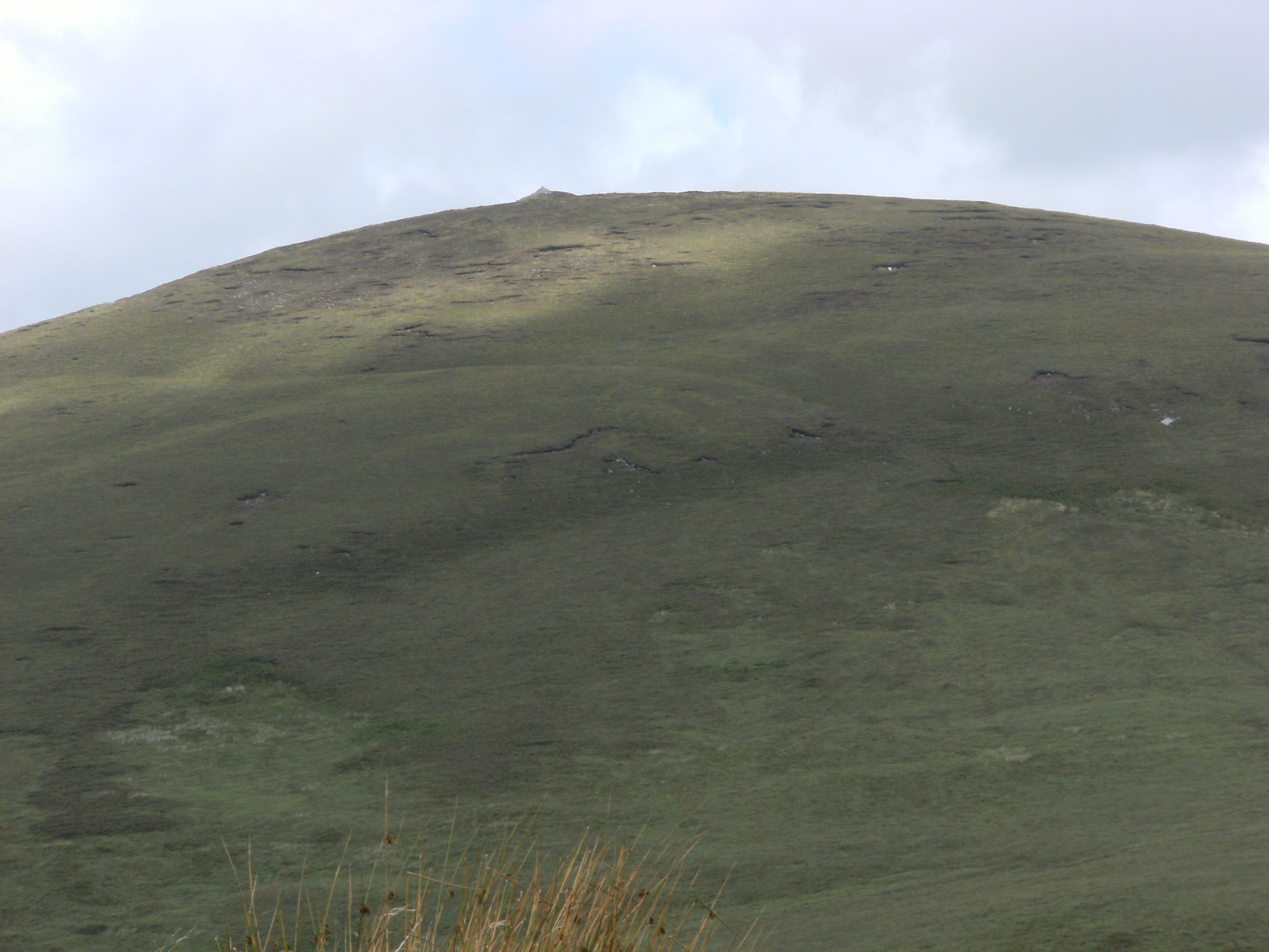 Rathmorgan Fort, Erris, Co. Mayo